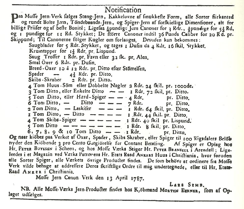 The scanned picture is of an advertisement for the Ironworks in Moss, dated 1787.